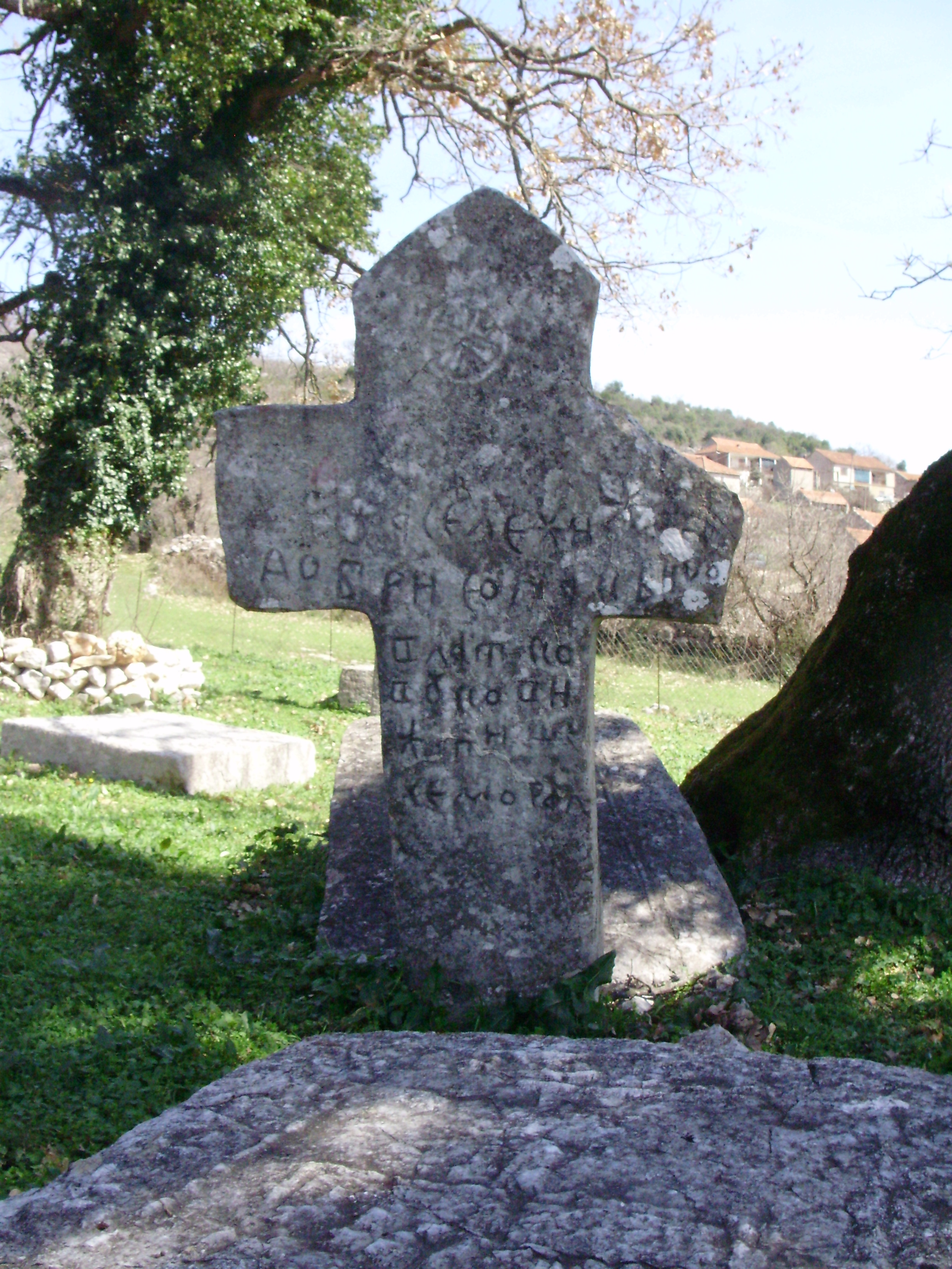 Medieval tombstone